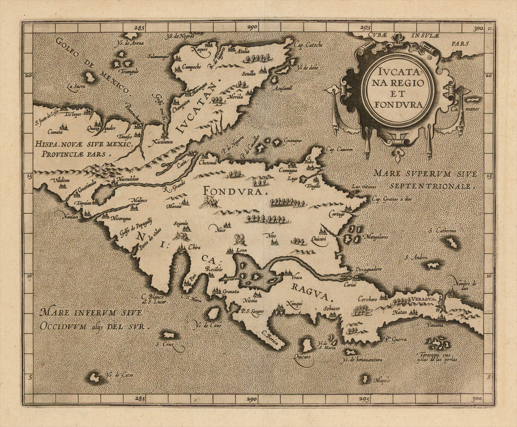 Map of Central America from atlas by Cornelius van Wytfliet